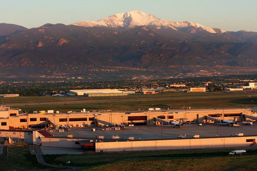 View of Pikes Peak from airport